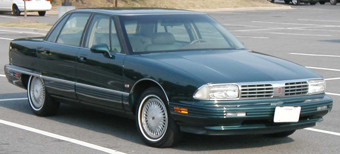 1991-1996 Oldsmobile Ninety-Eight photographed in USA.